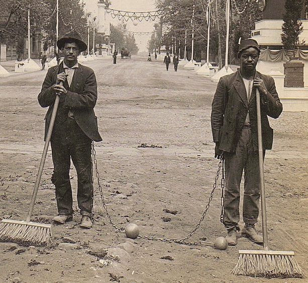 Chain Gang street sweepers. From a real photo postcard postmarked from Washington, DC in 1909.